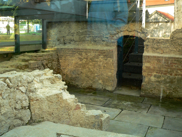 Foundations of Fallersleben Castle, Lower Saxony, Germany